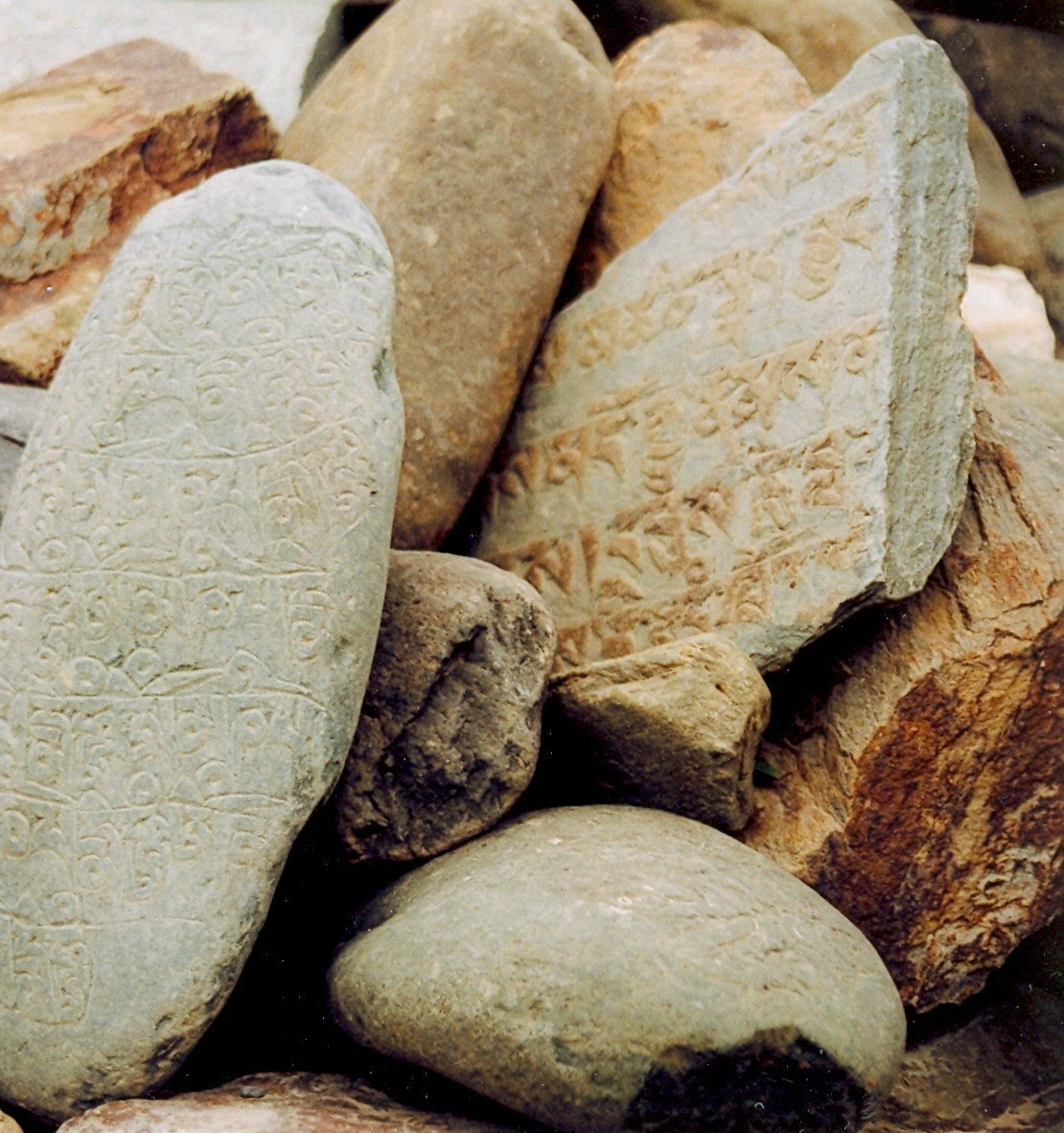 Carved Mani Stones — in Ladakh, Jammu and Kashmir, India.